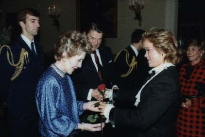 Jill Whelan presents a rose to Nancy Reagan as Ronald Reagan looks on in Blue Room in 1984